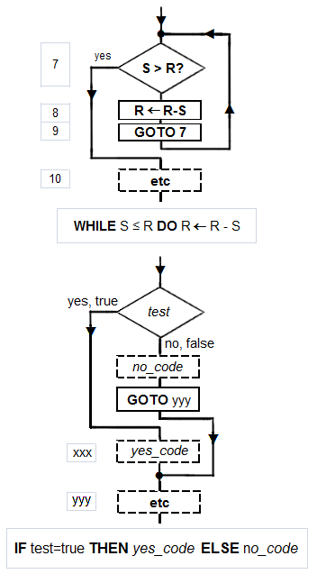 Examples of the three Boehm-Jacopini canonical program structures.